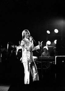 Claude François